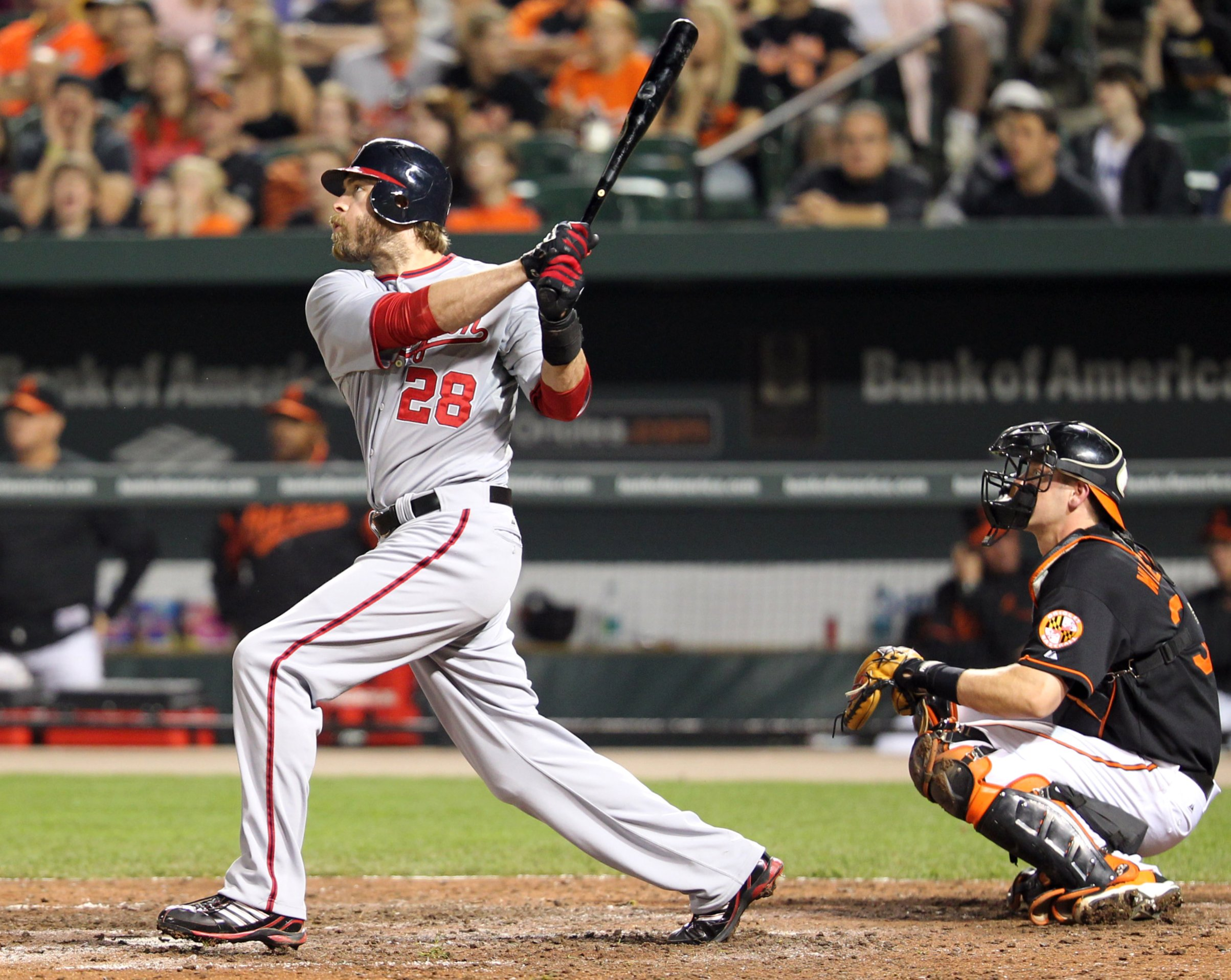 Washington Nationals at Baltimore Orioles May 20, 2011.